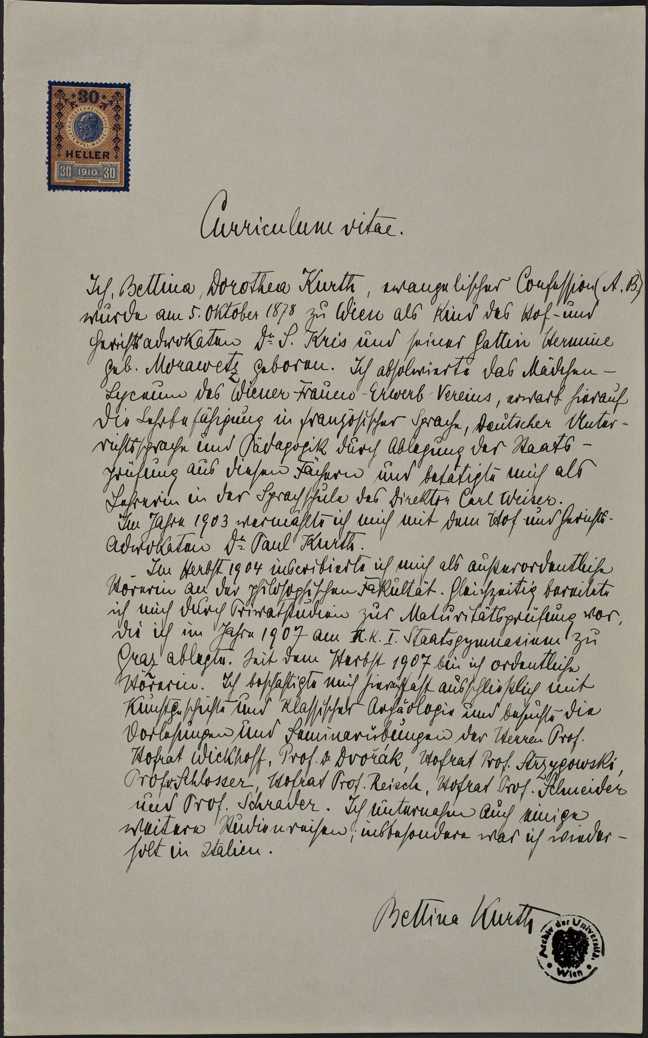 Curriculum vitae of Betty Kurth (1878-1948), autograph